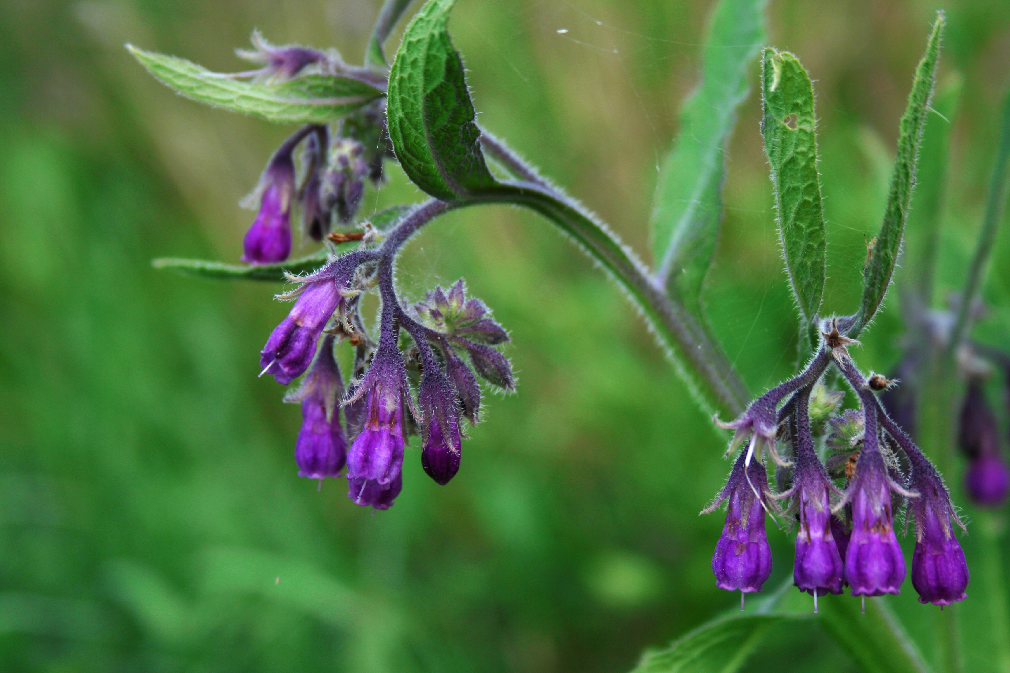 Symphytum officinale - North-Hungary.